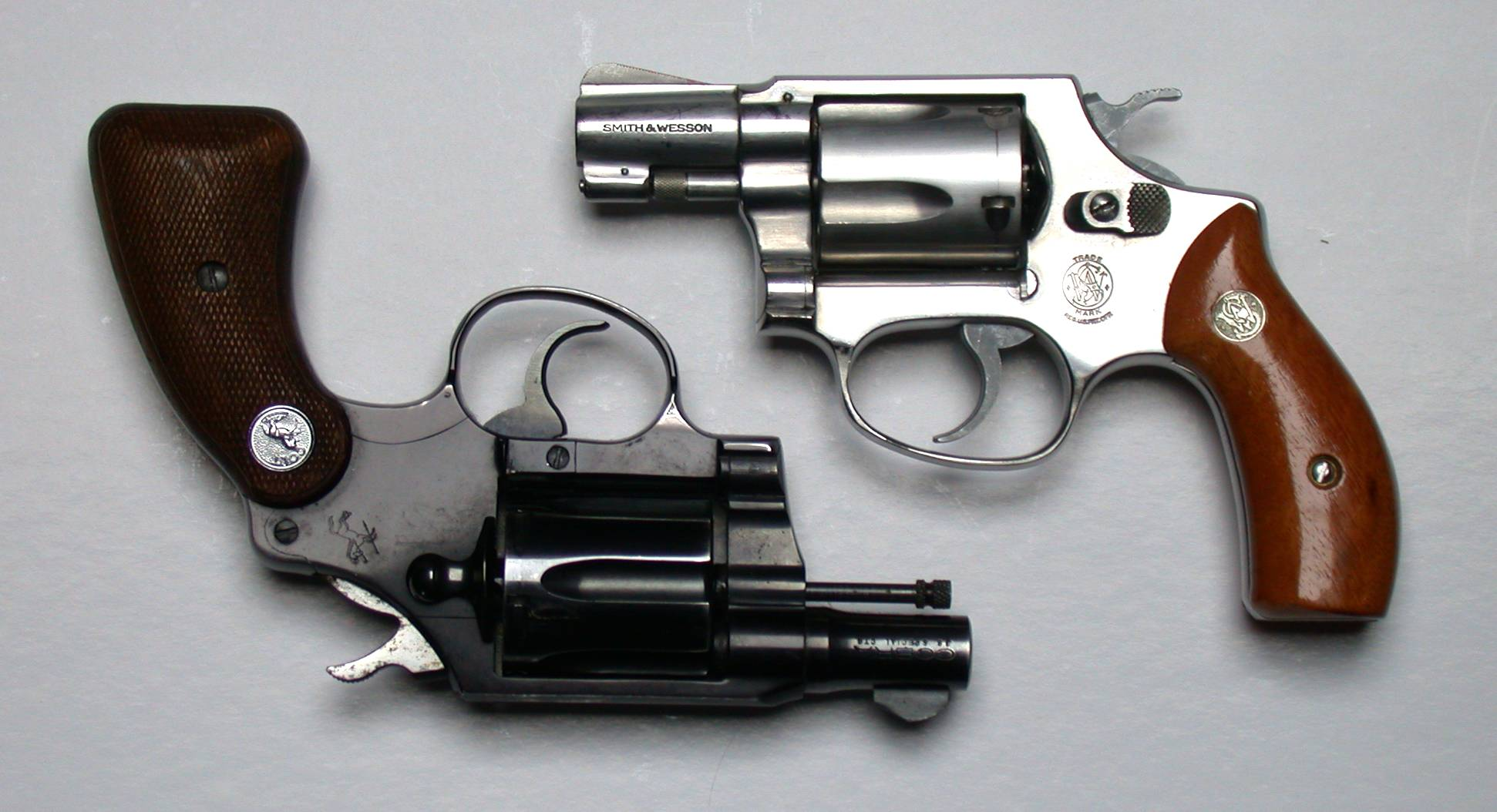 Colt and S&W compact revolvers